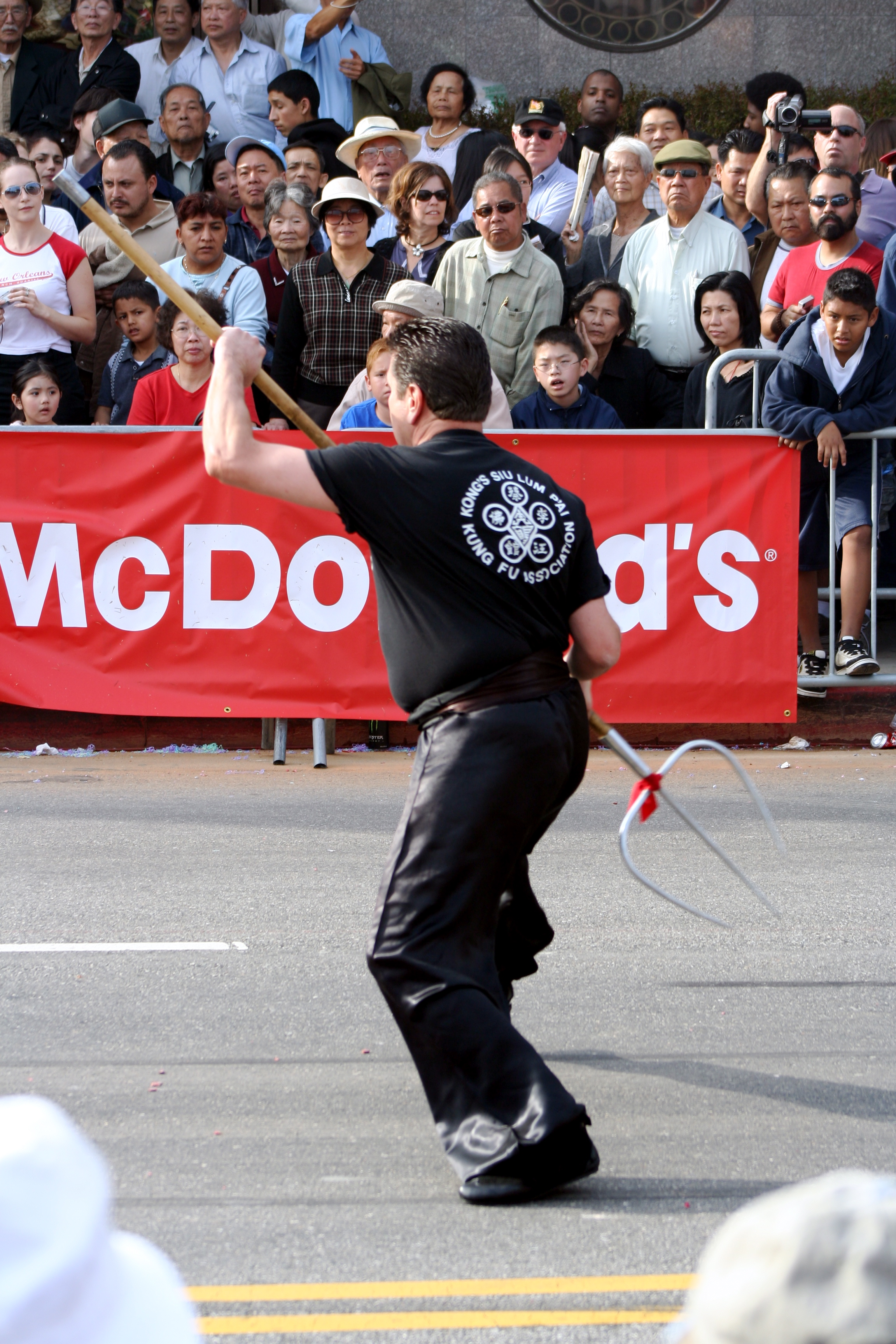 Martial artist in Chinatown, Los Angeles, California, with a trident-like weapon during the Golden Dragon Parade, 4 February 2006.kung fu trident